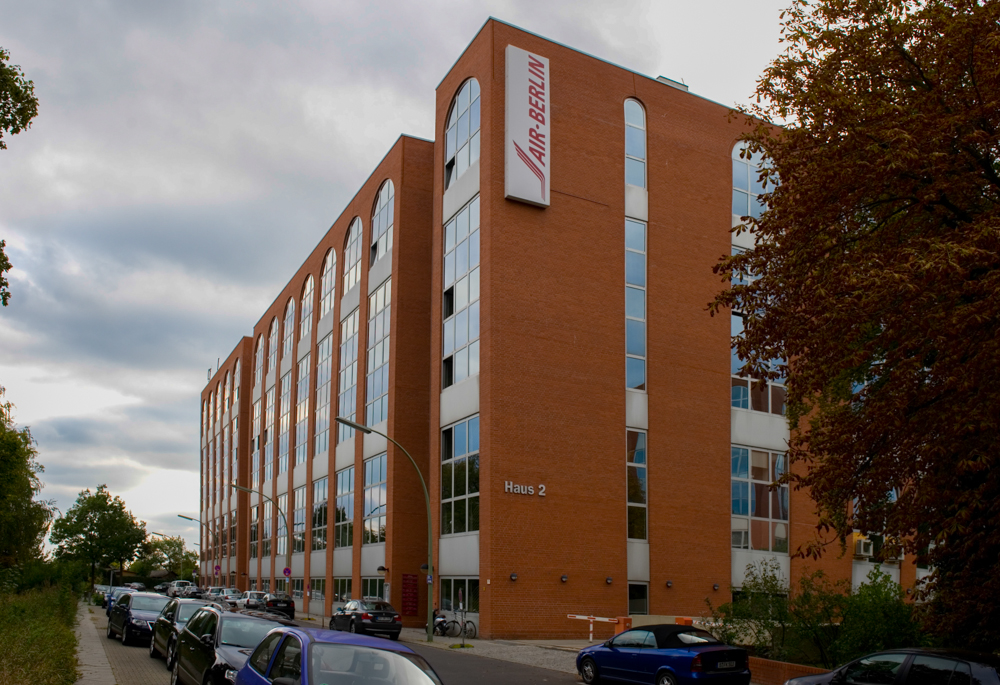 Headquarters, Air Berlin PLC & Co. Luftverkehrs KG, Building 2, Entrance Buchholzweg 7-8, Airport Bureau Center - Saatwinkler Damm 42-43 D-13627 Berlin